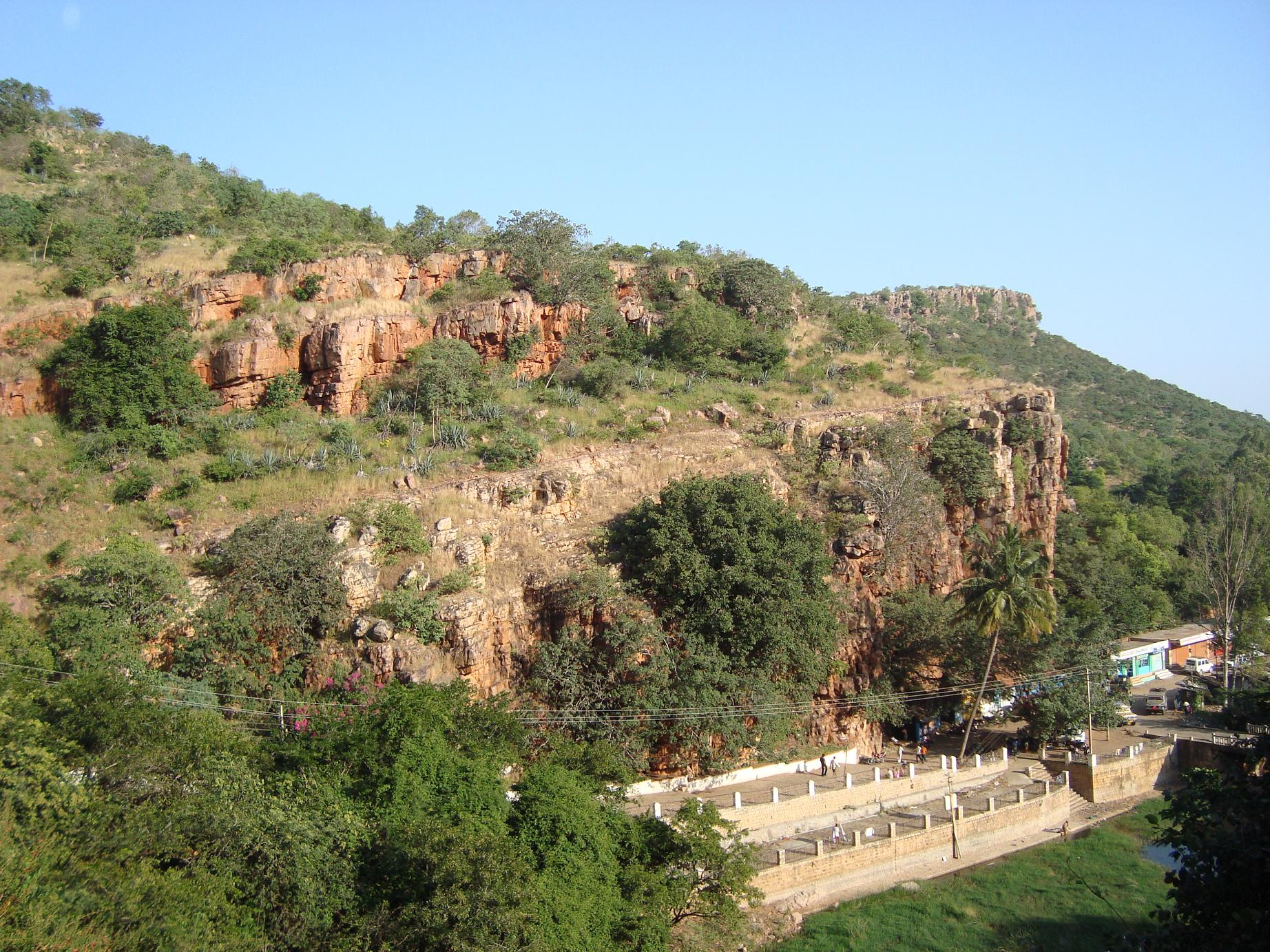 Sogal Source and Author : Manjunath Doddamani, Gajendragad / Hubli, Karnataka(India)